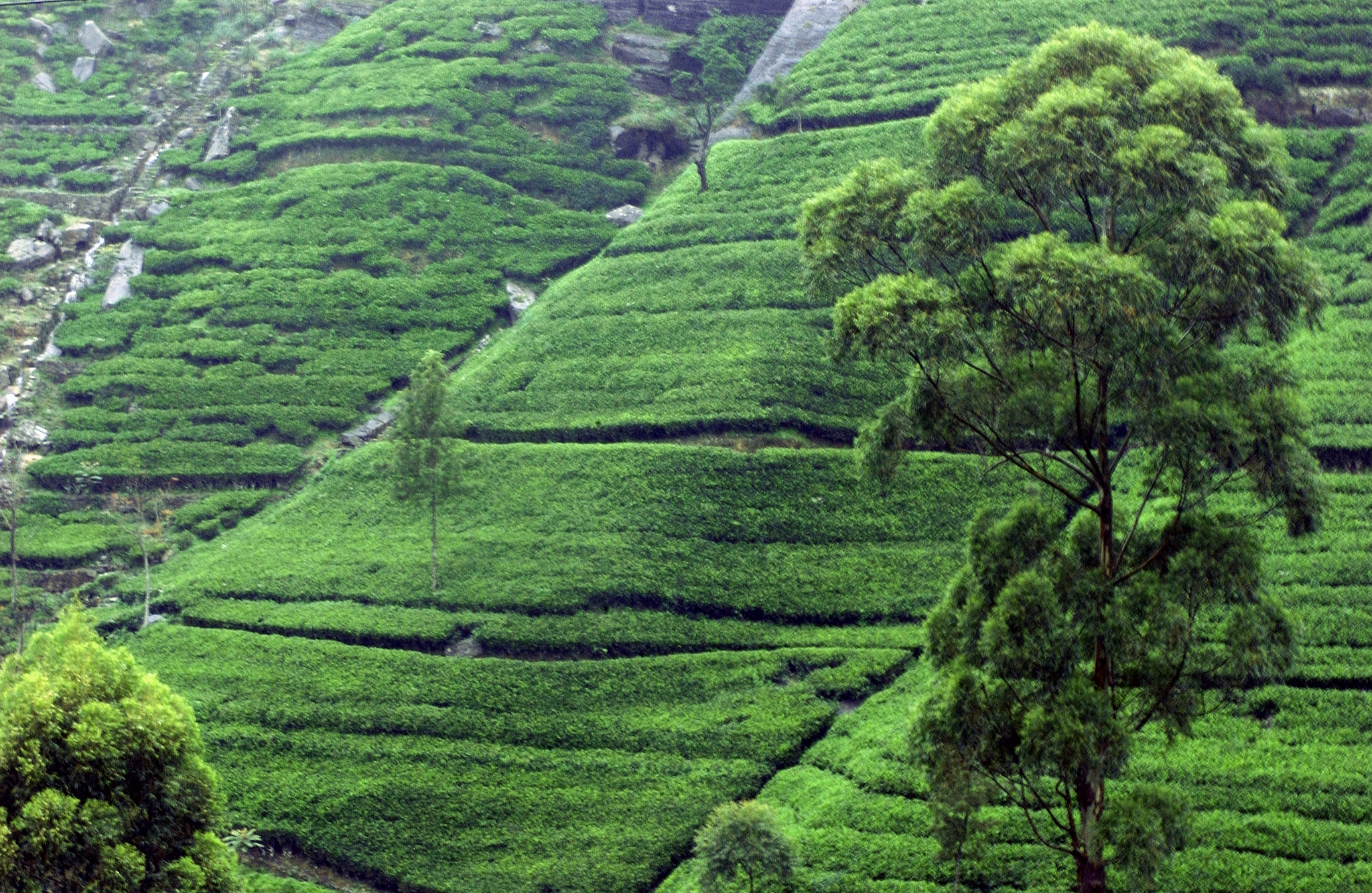 Tea plantation near Kandy, Sri Lanka